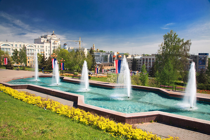 Lipetsk